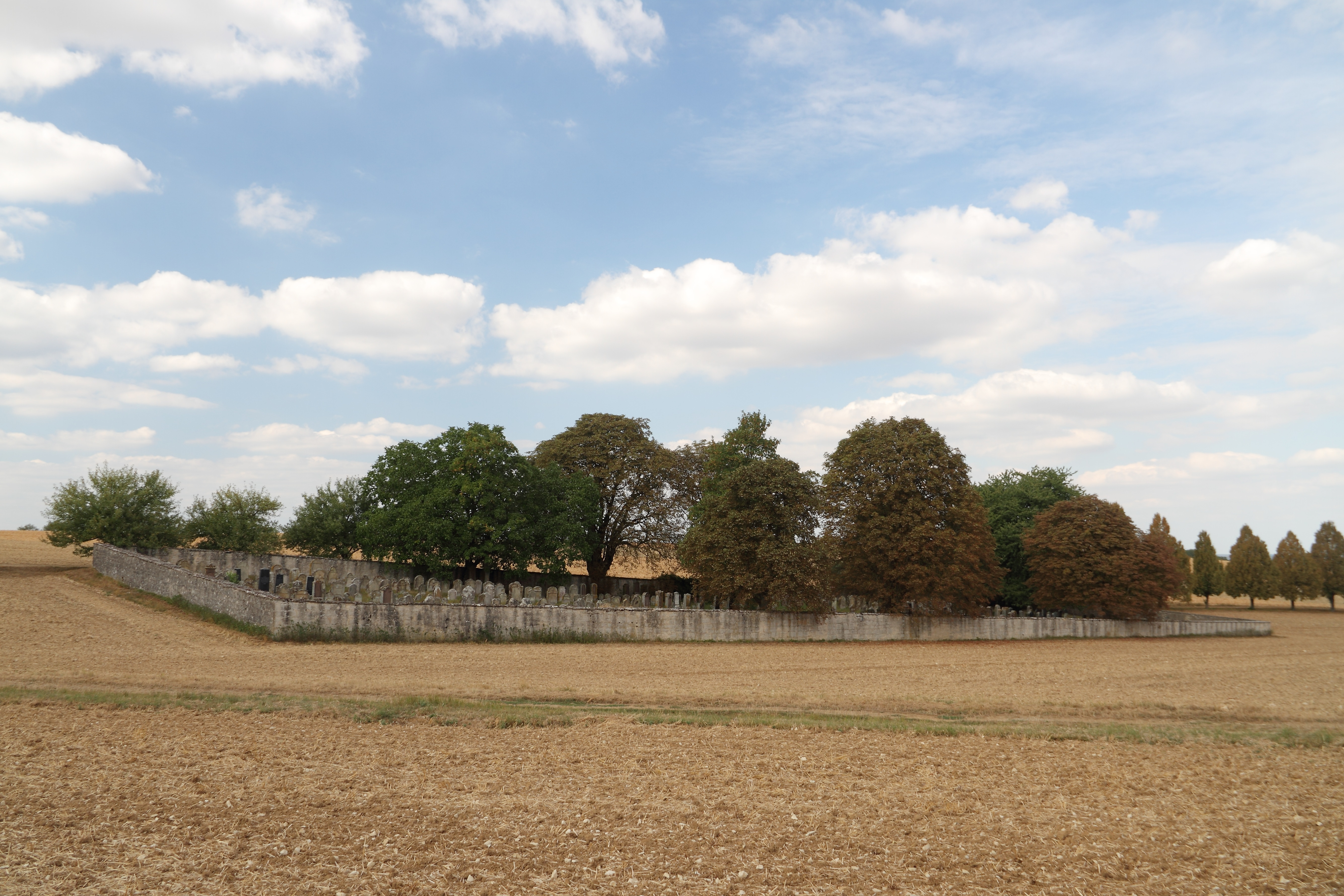 The jewish cemetary of Niederstetten, autumn 2018.